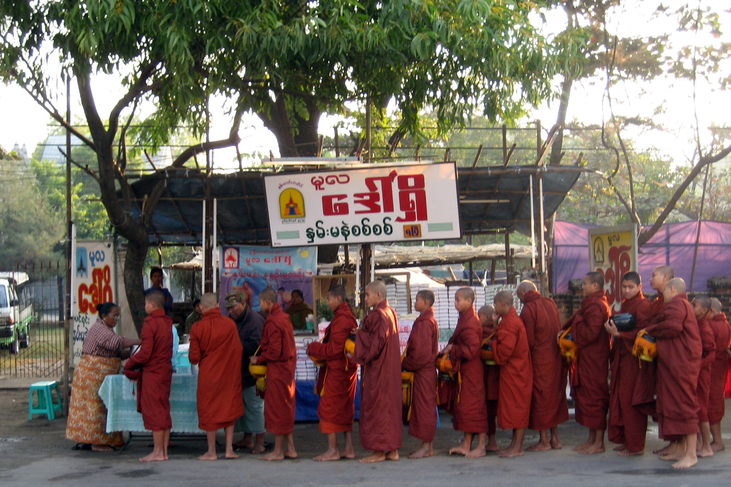 Hsoon laung - offering food to monks on their alms round (hsoon hkan) in Mandalay. I took this photo in front of Judson Memorial Baptist Church; the woman owns the stall selling htamanè, a traditional glutinous rice dish. မြန်မာဘာသာ: မန္တလေးမြို့ထမနဲလမ်းဘေးဆိုင်ရှိ ဆွမ်းခံနေကြသည့် ကိုရင်များကို တွေ့ရစဉ်။ မိန်းမတစ်ယောက်က ဆွမ်းလောင်းပေးနေပါသည်။